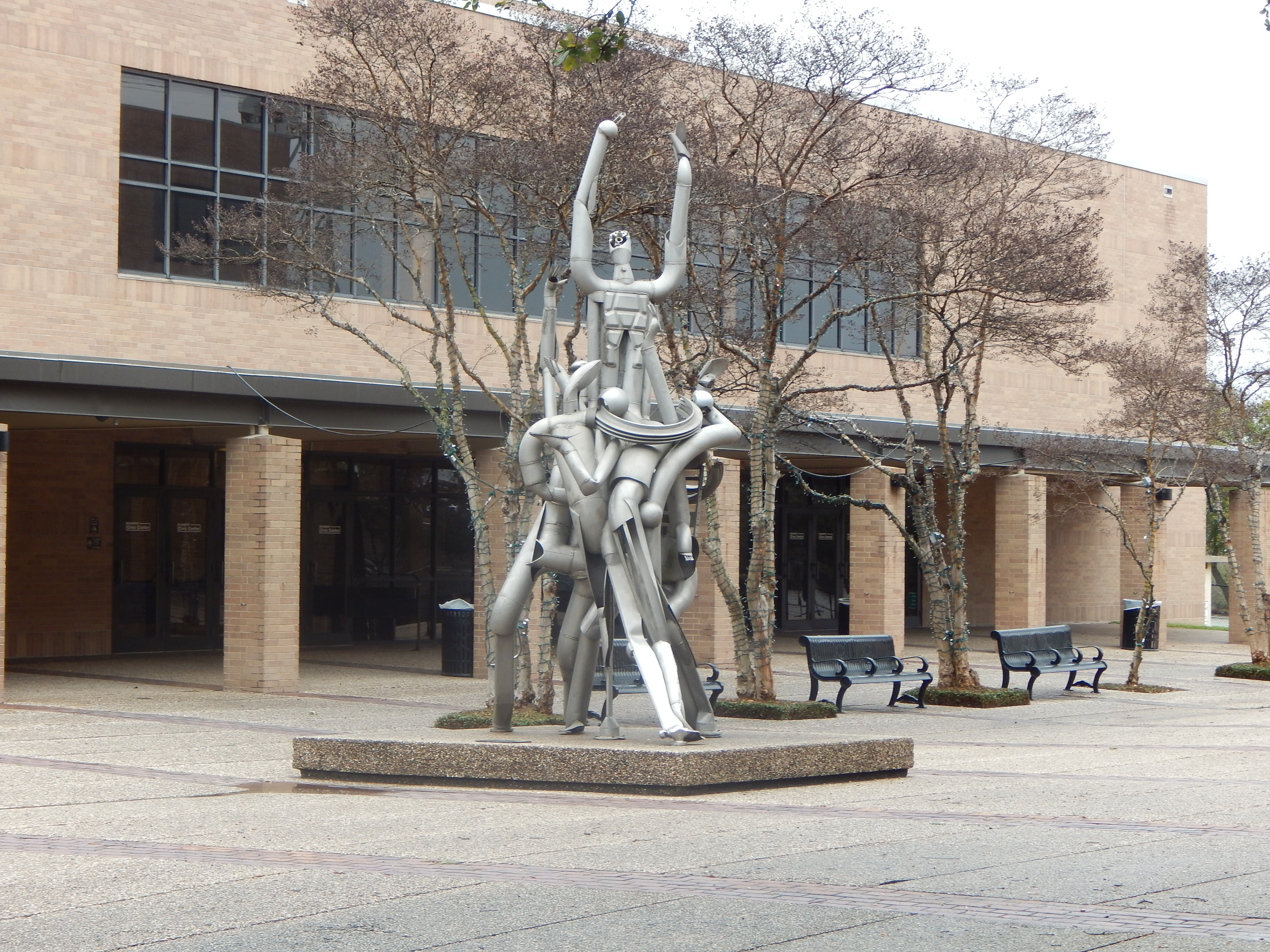 Beaumont Civic Center - David Cargill sculpture located in plaza between Civic Center and Beaumont City Hall